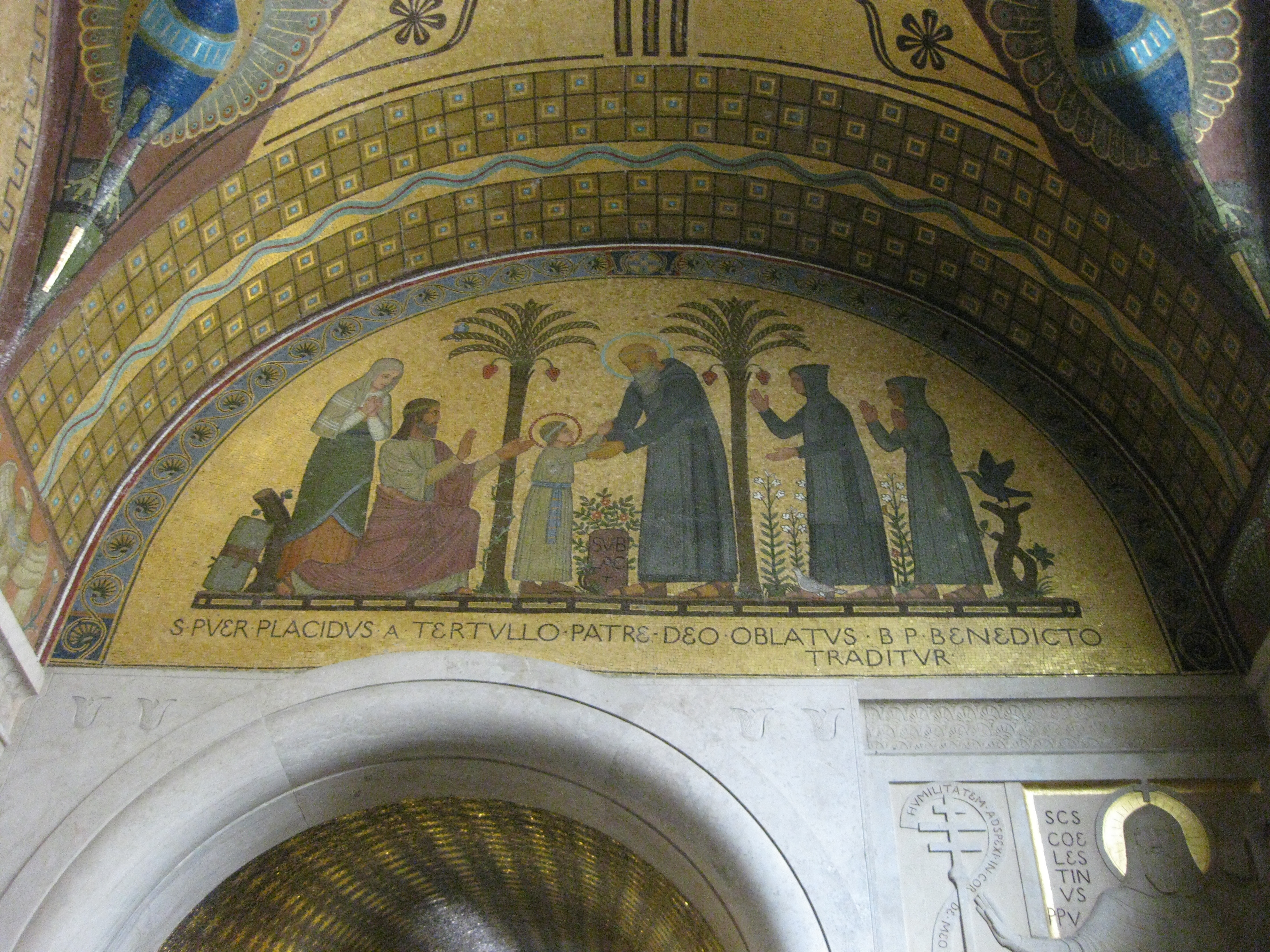 Mosaics in the crypt of the Monastery at Monte Cassino in Cassino, Italy